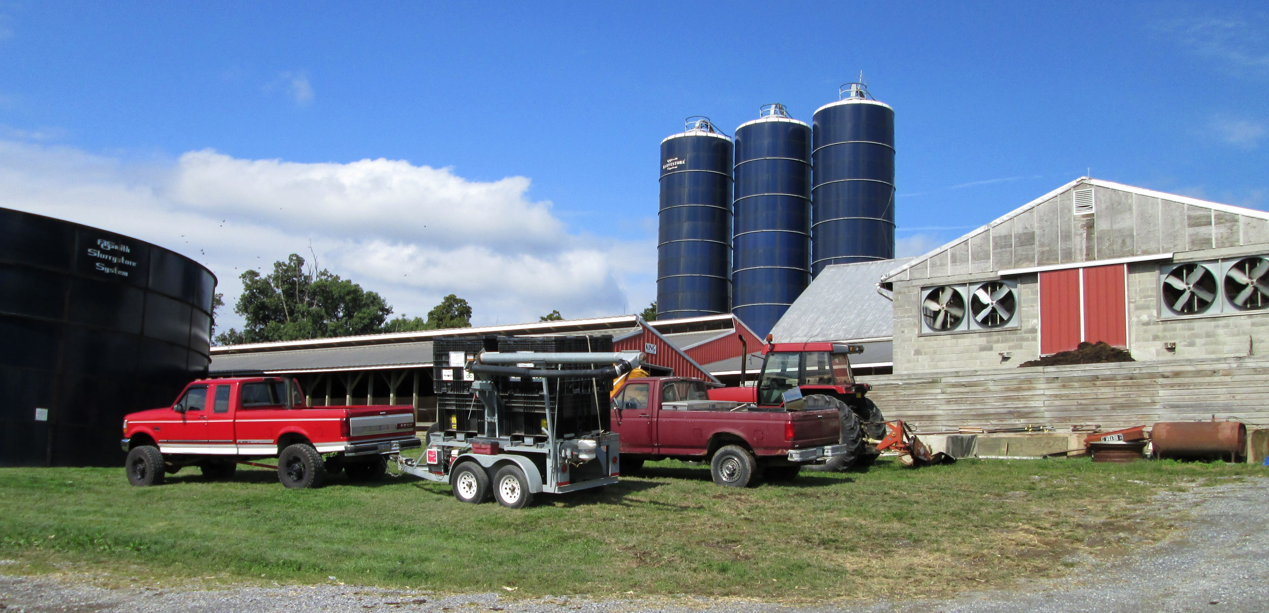 Wanner's Farm on Wanner Road in Narvon, Pennsylvania